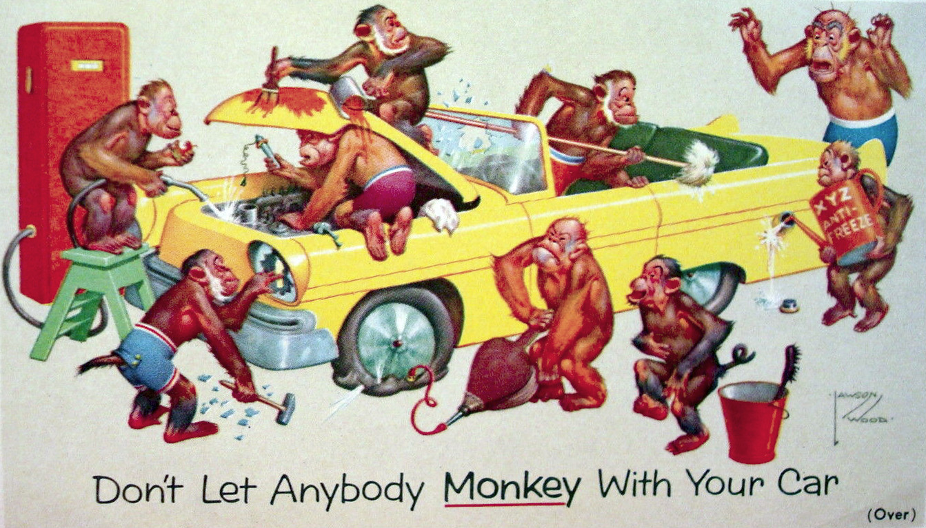 Postcard ad for Prestone Anti-Freeze featuring an illustration by artist Lawson Wood.